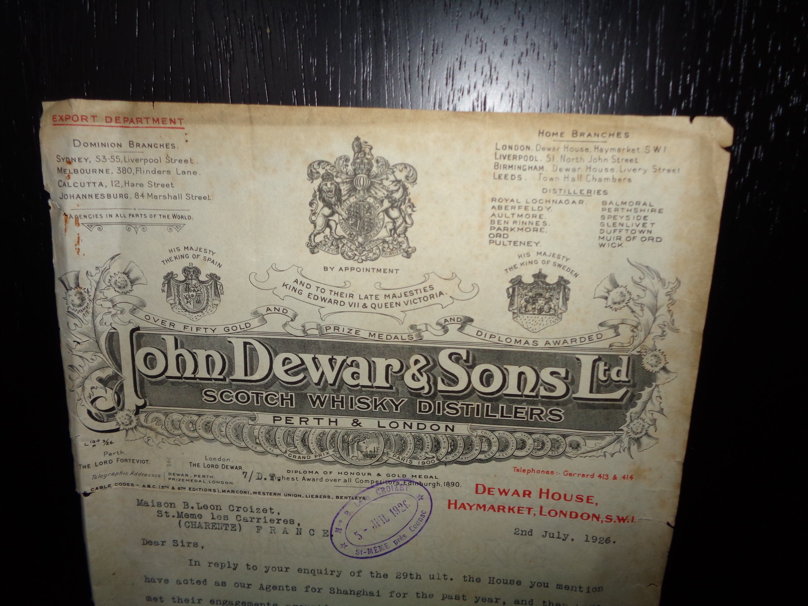 John Dewar & Sons ltd, vintage letter, 1926, great wording, amazing letter´ classic. John Dewar & Sons ltd, vintage letter, 1926, great wording Photography by David Adam Kess